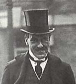 Edwin Montagu, Secretary of State for India, shown in the 1910s